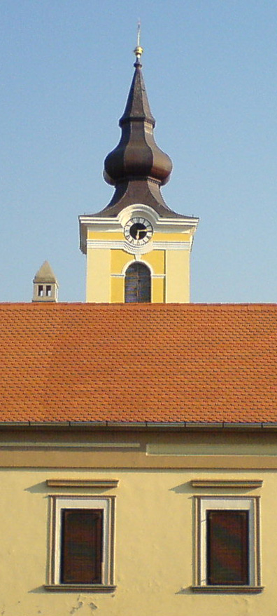 Church of the Holy Micheal in Donji Miholjac-HR